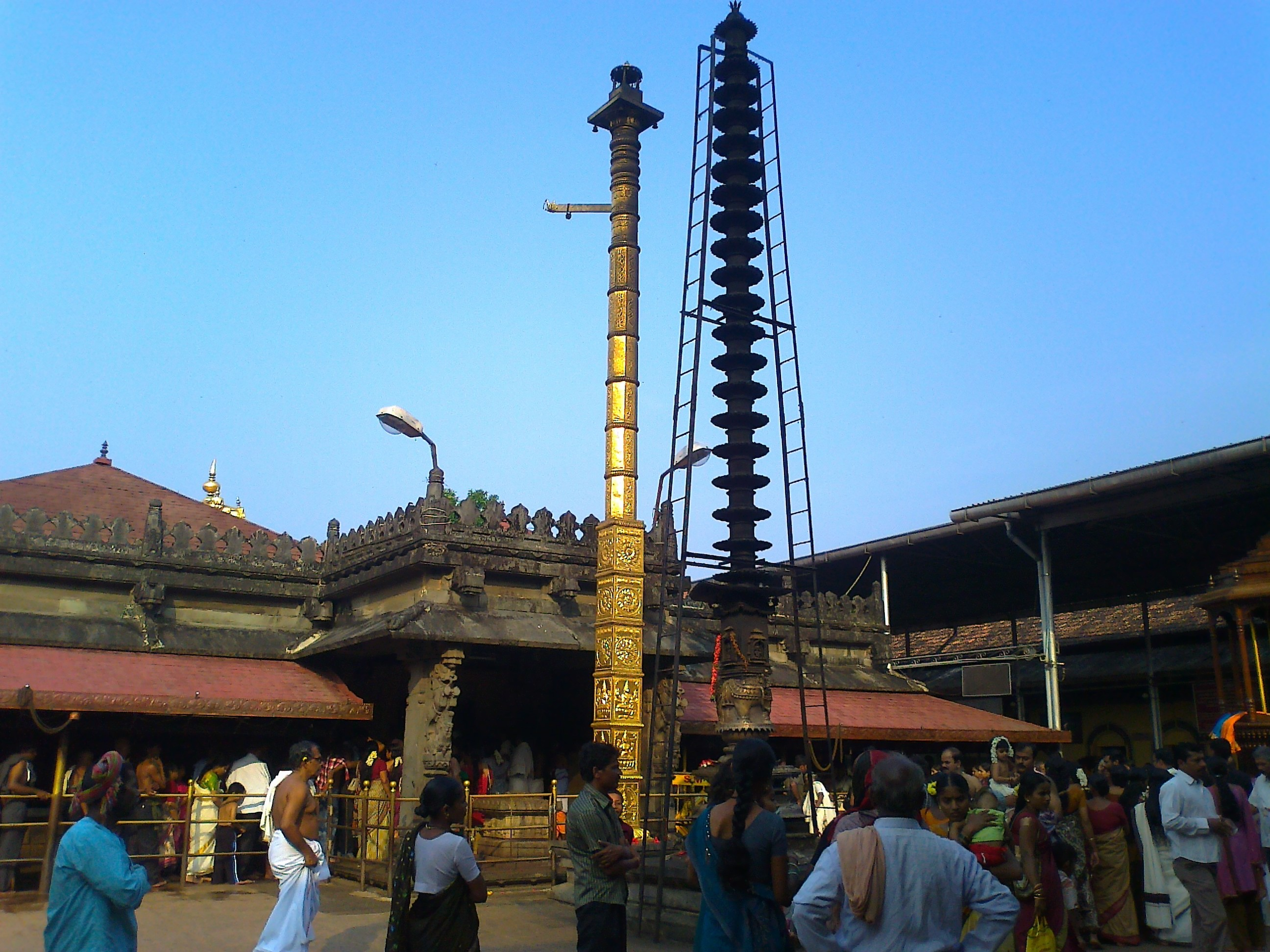 Kollur mookambika temple front view